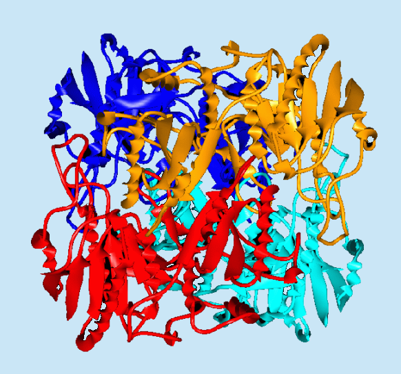 3D Chemical structure of L-Asparaginase. Made with Corina Software